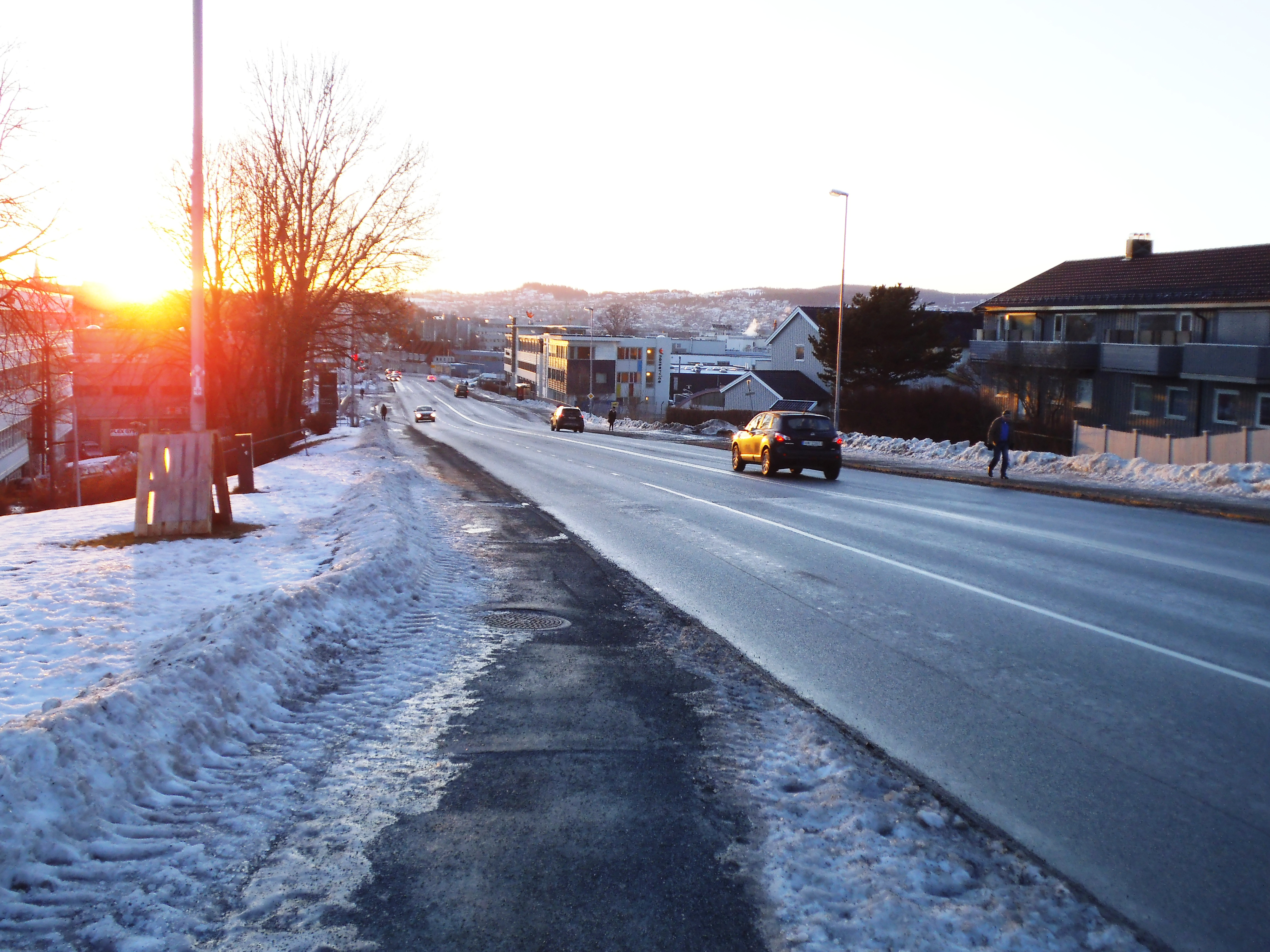 Jarleveien is a street in Lade, Trondheim. Northern part og the street. January 2015.